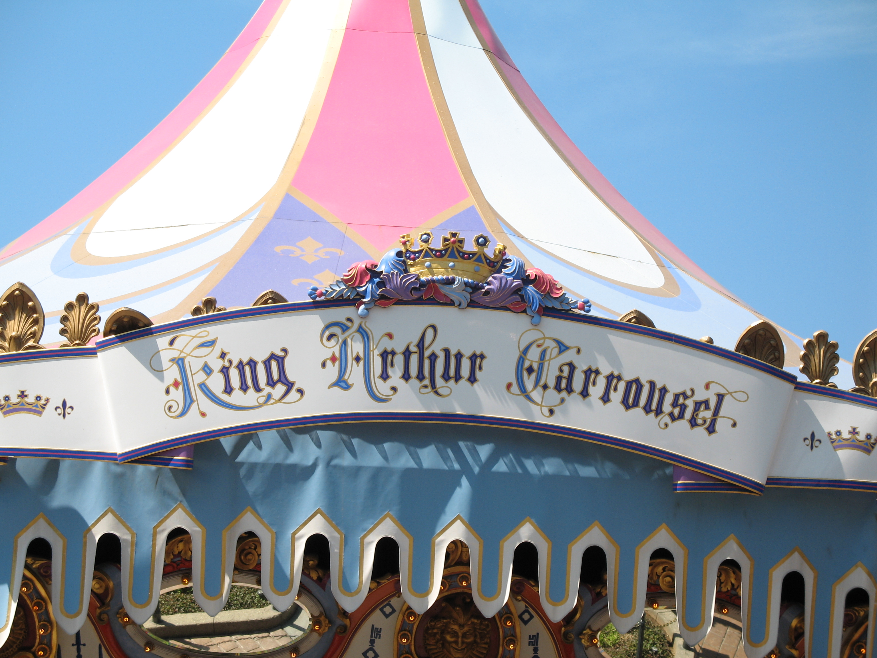 Photo of the King Arthur Carrousel attraction at Disneyland.